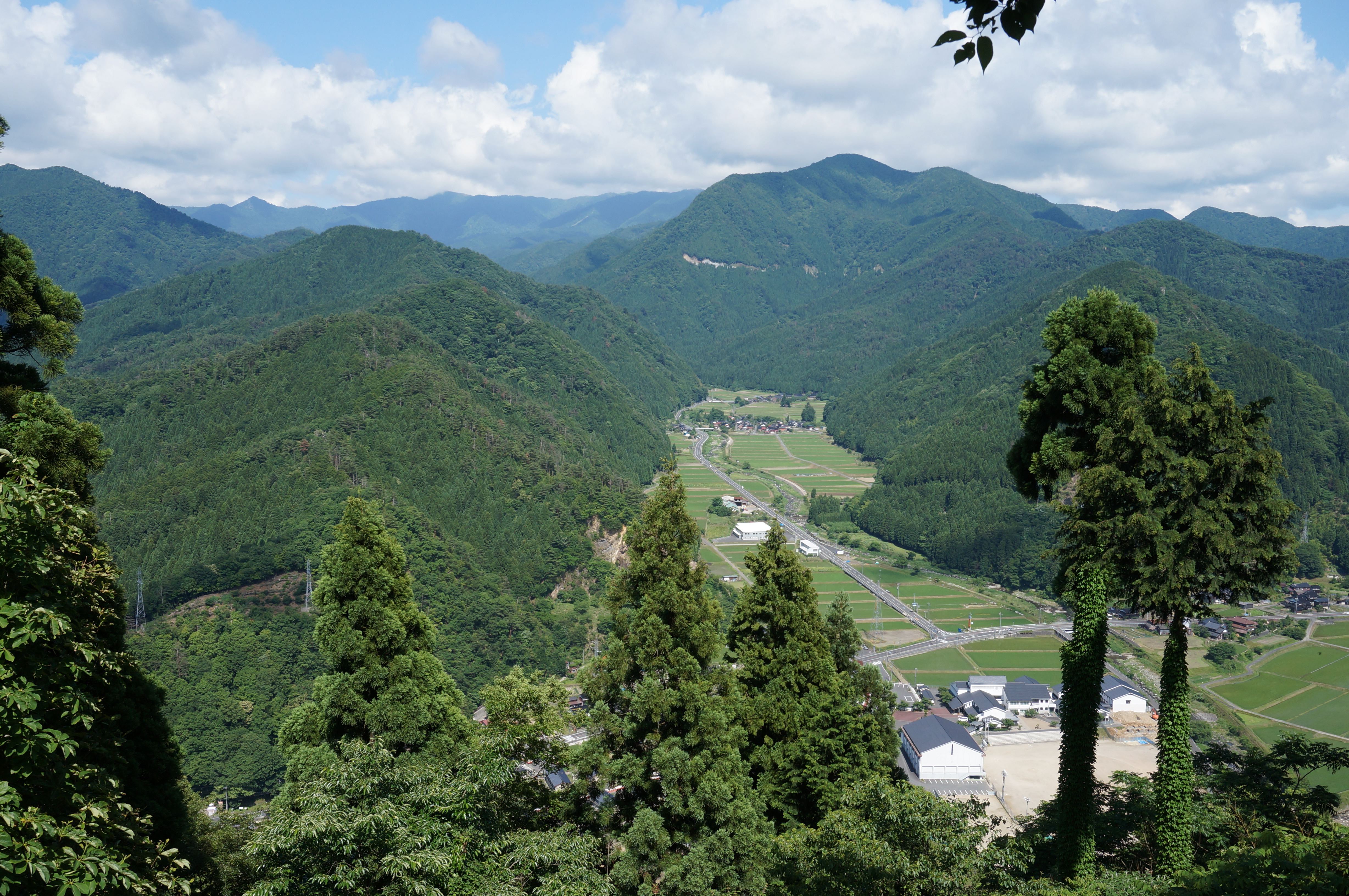 View of Tajima road (upper direction) and Harima road (right direction) from Wakasa Oniga-jō